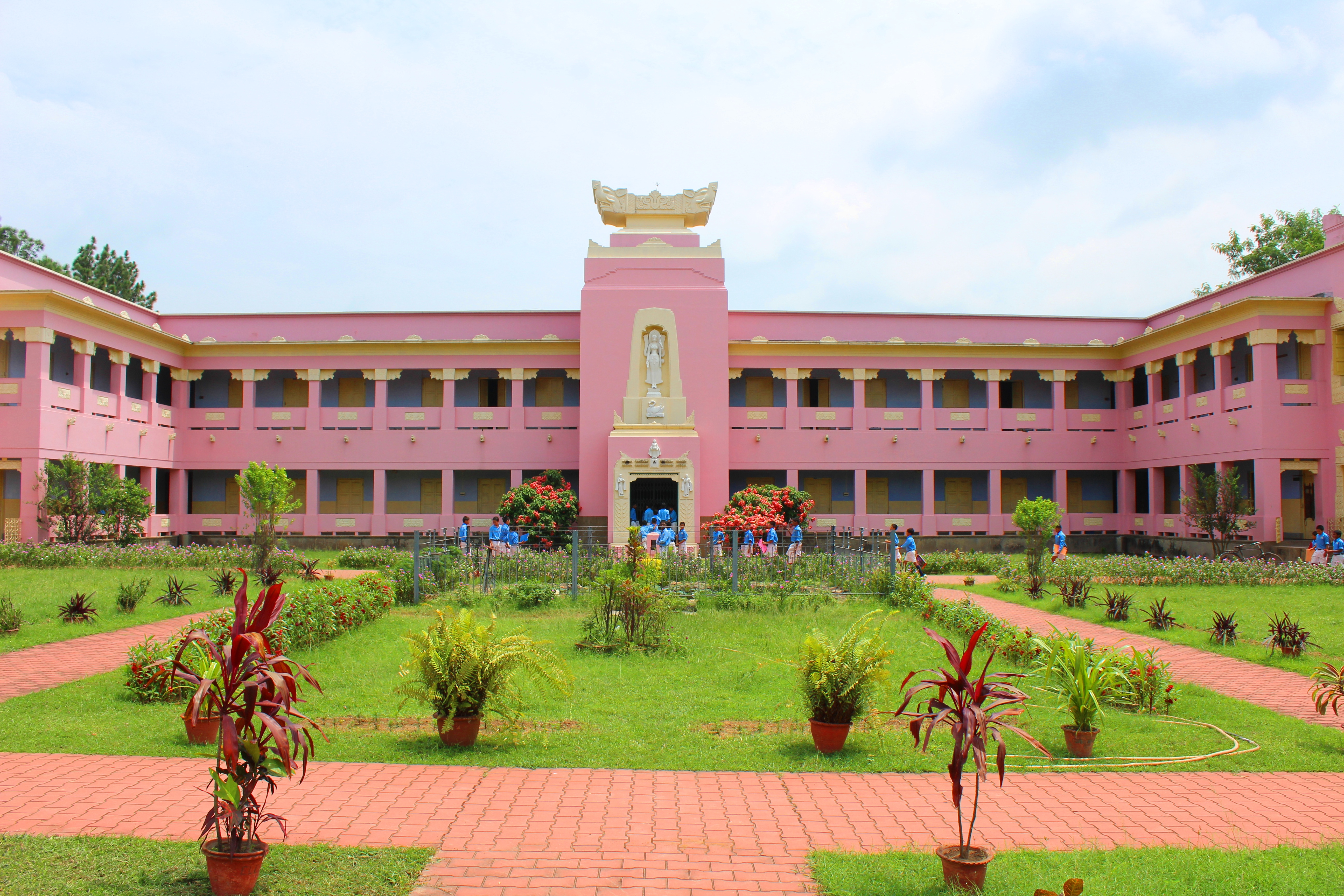 Purulia Ramkrishna Mission in Purulia district